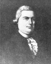 Portrait of Senator Theodore Foster of Rhode Island